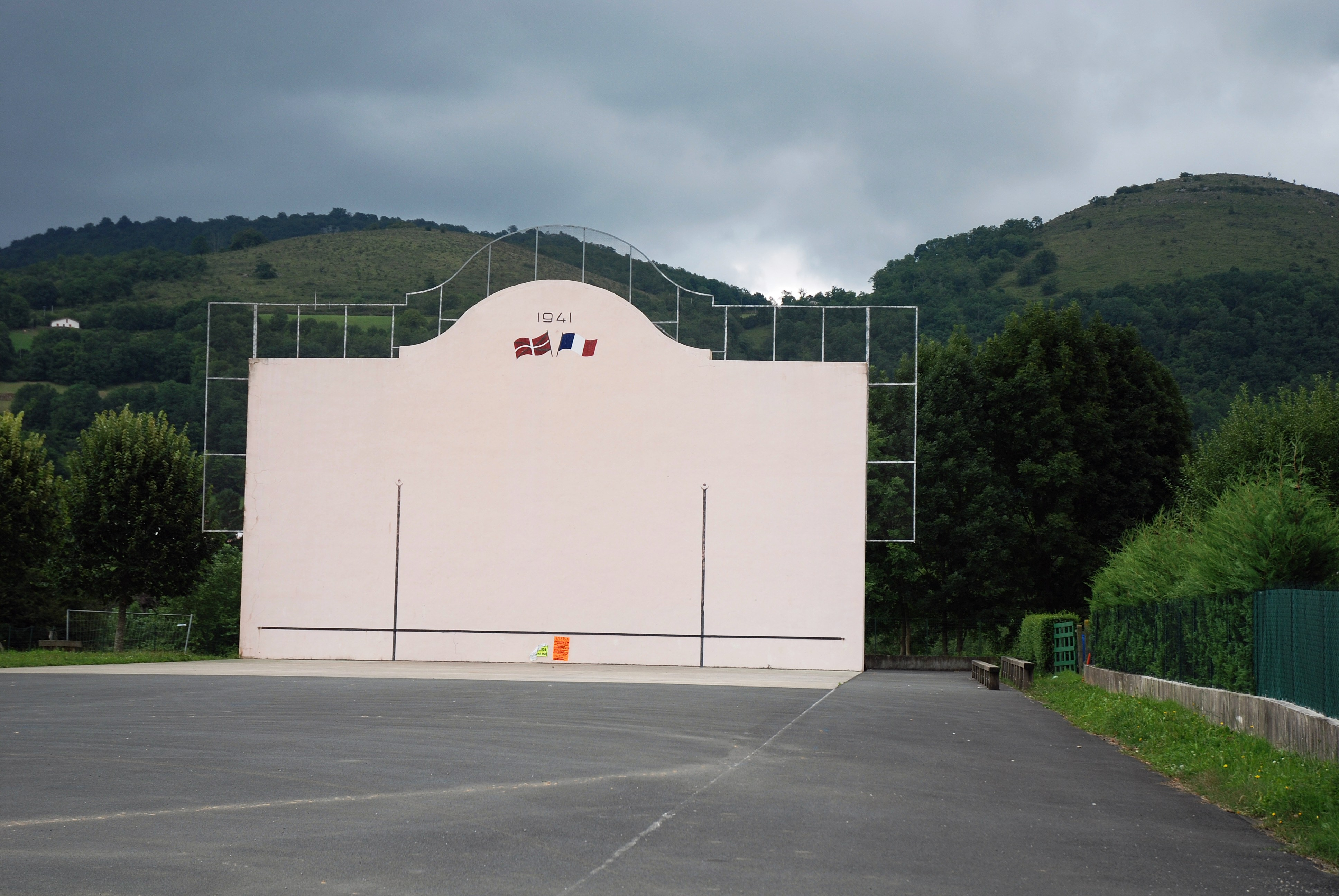 Lecumberry, fronton place libre. / Lekunberri, frontoia.